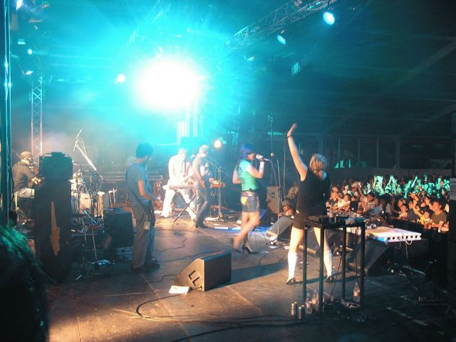 I took this photo of United State of Electronica live at the Red Marquee from back stage, in the summer 2005, at the Fuji Rock Festival in Naeba, Niigata, Japan. I am putting this photo here at wiki commons for people to freely use.